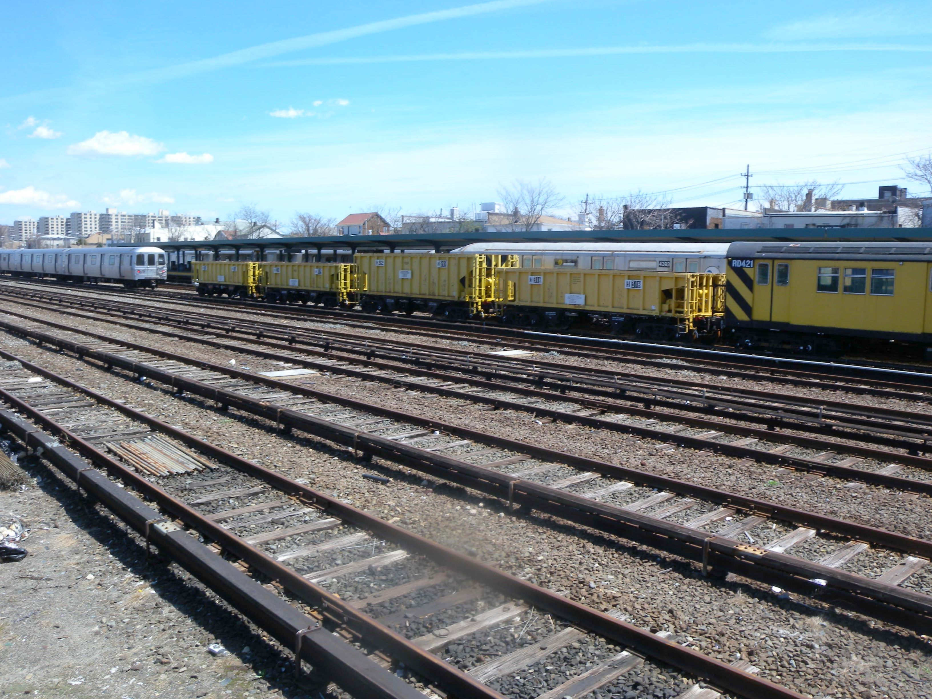 Looking east at yard in Rockaway Park from parking lot on a sunny midday.